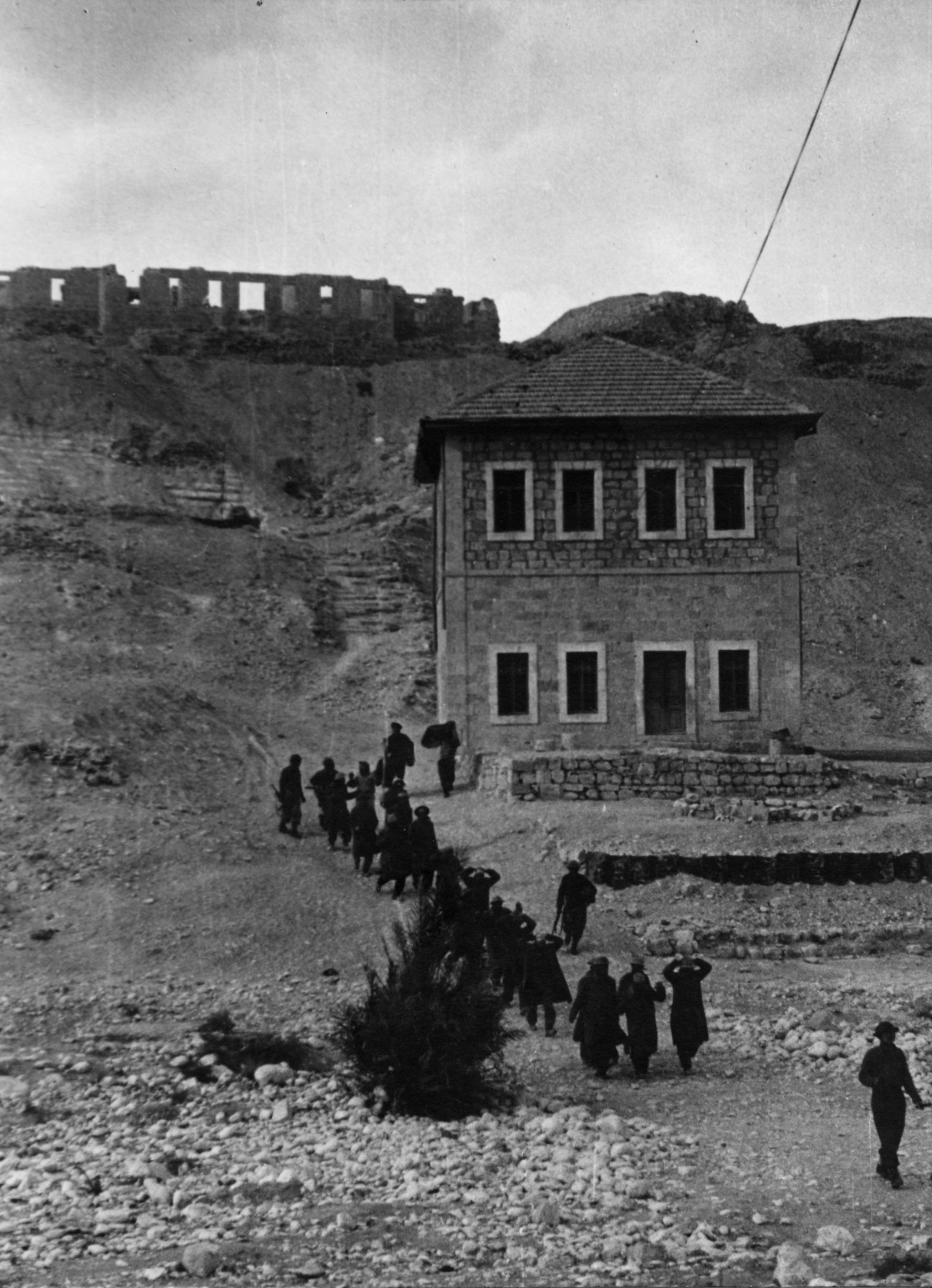 The Palmach, Israel Defense Forces